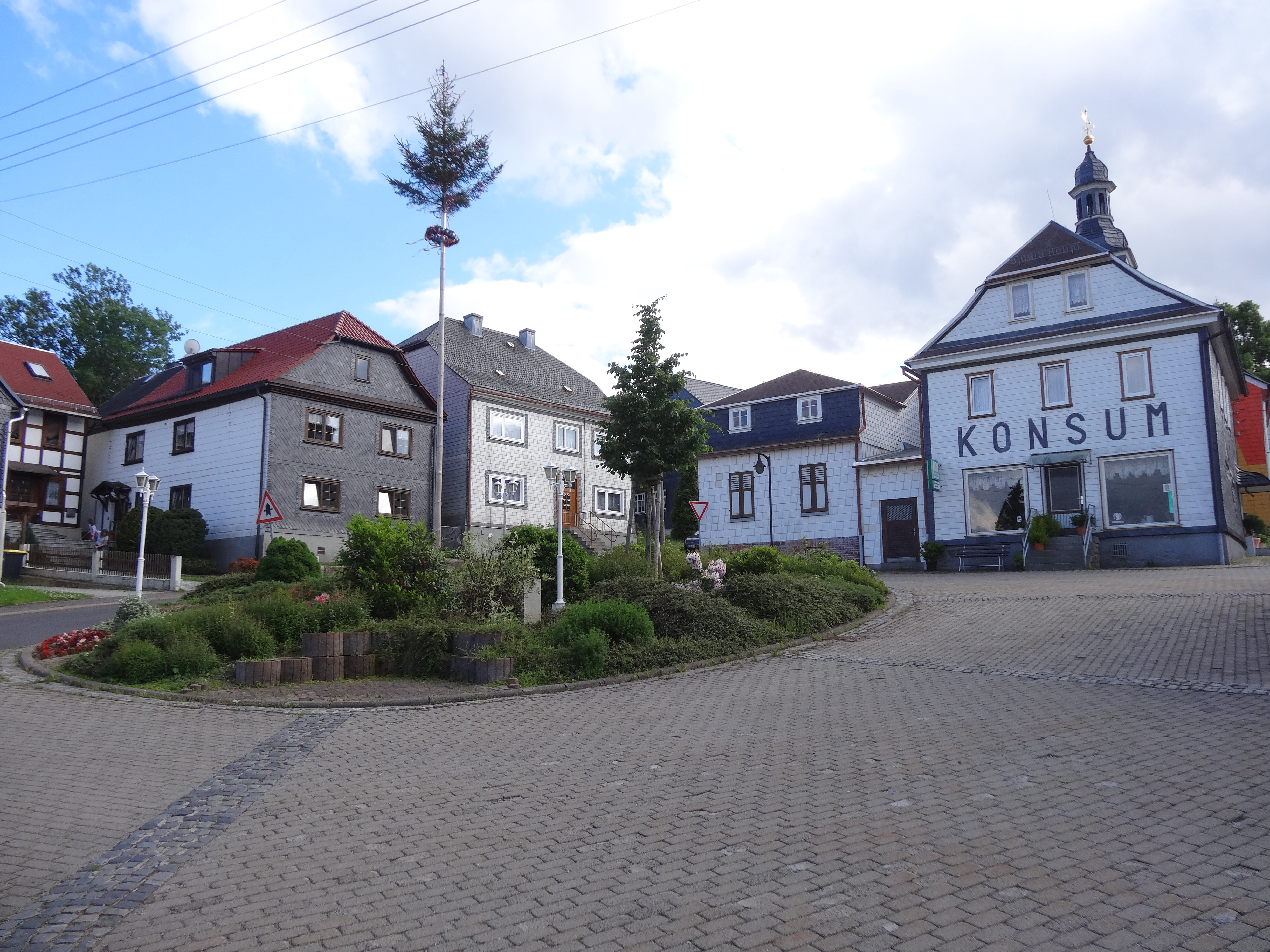 Central place of Friedersdorf, Thüringen, Germany